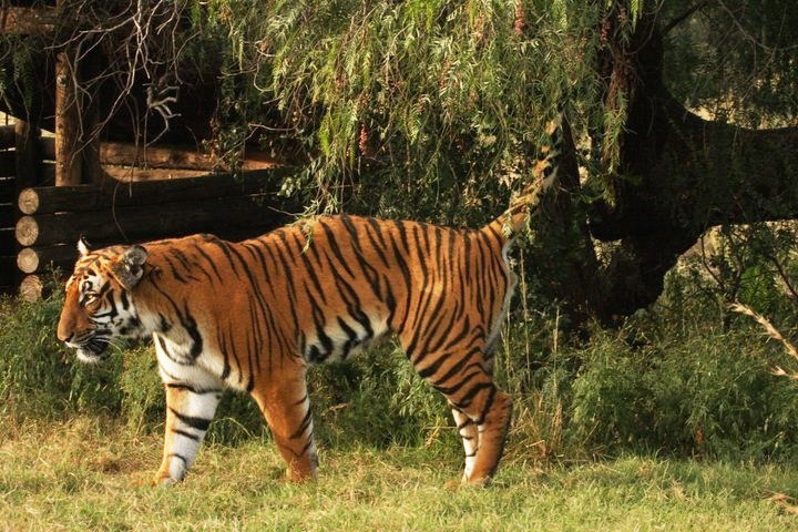 Picture of South China Tiger, JenB marking his territory in the wilderness of South Africa.